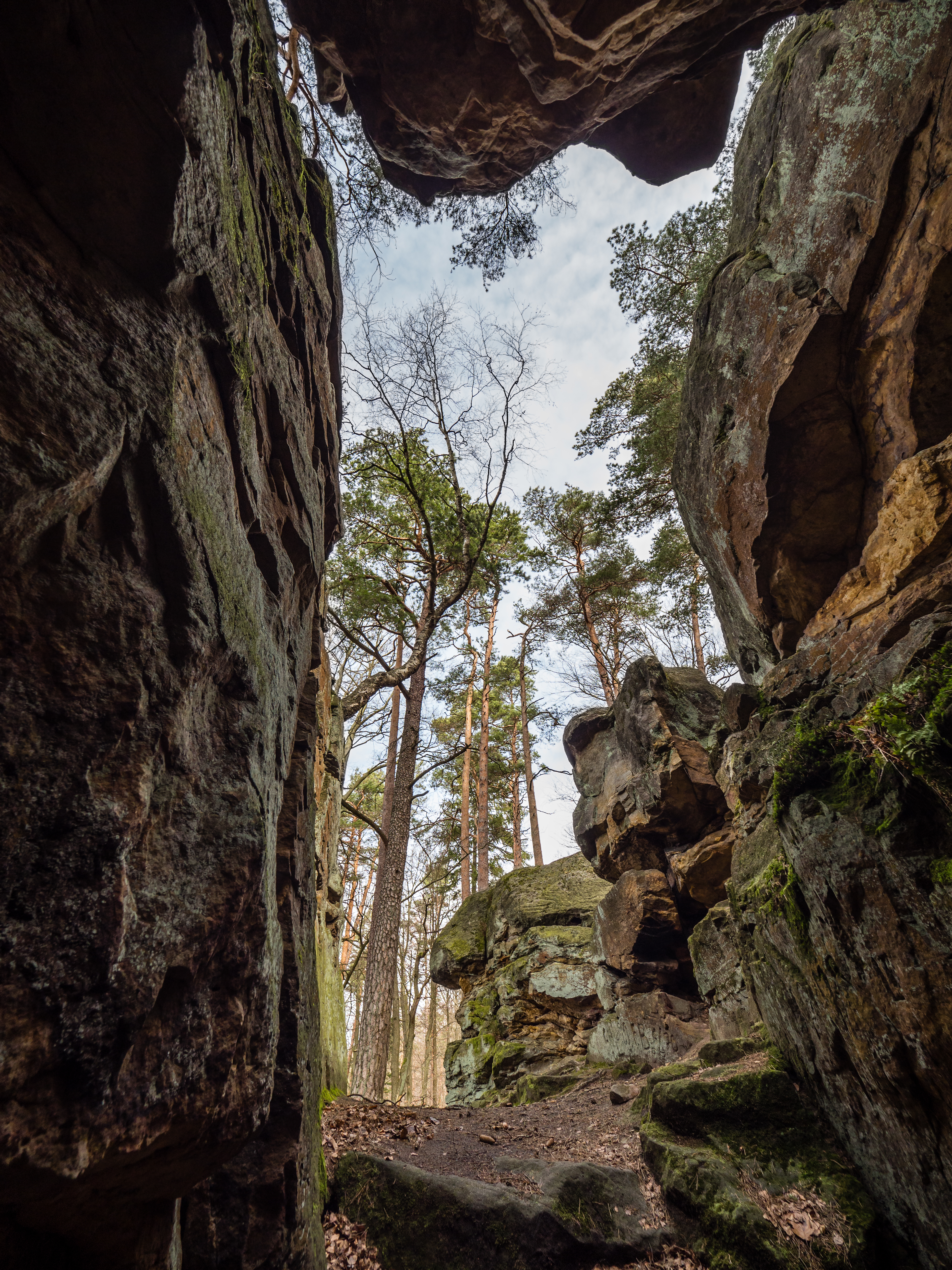 Veitenstein in the nature park Haßberge